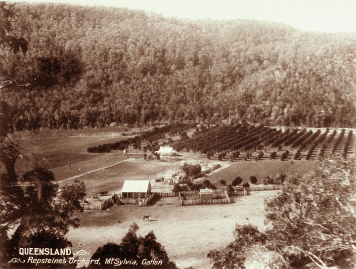 Repsteine's orchard at Mount Sylvia, Gatton. (Panorama of homestead, orchard and mountain)